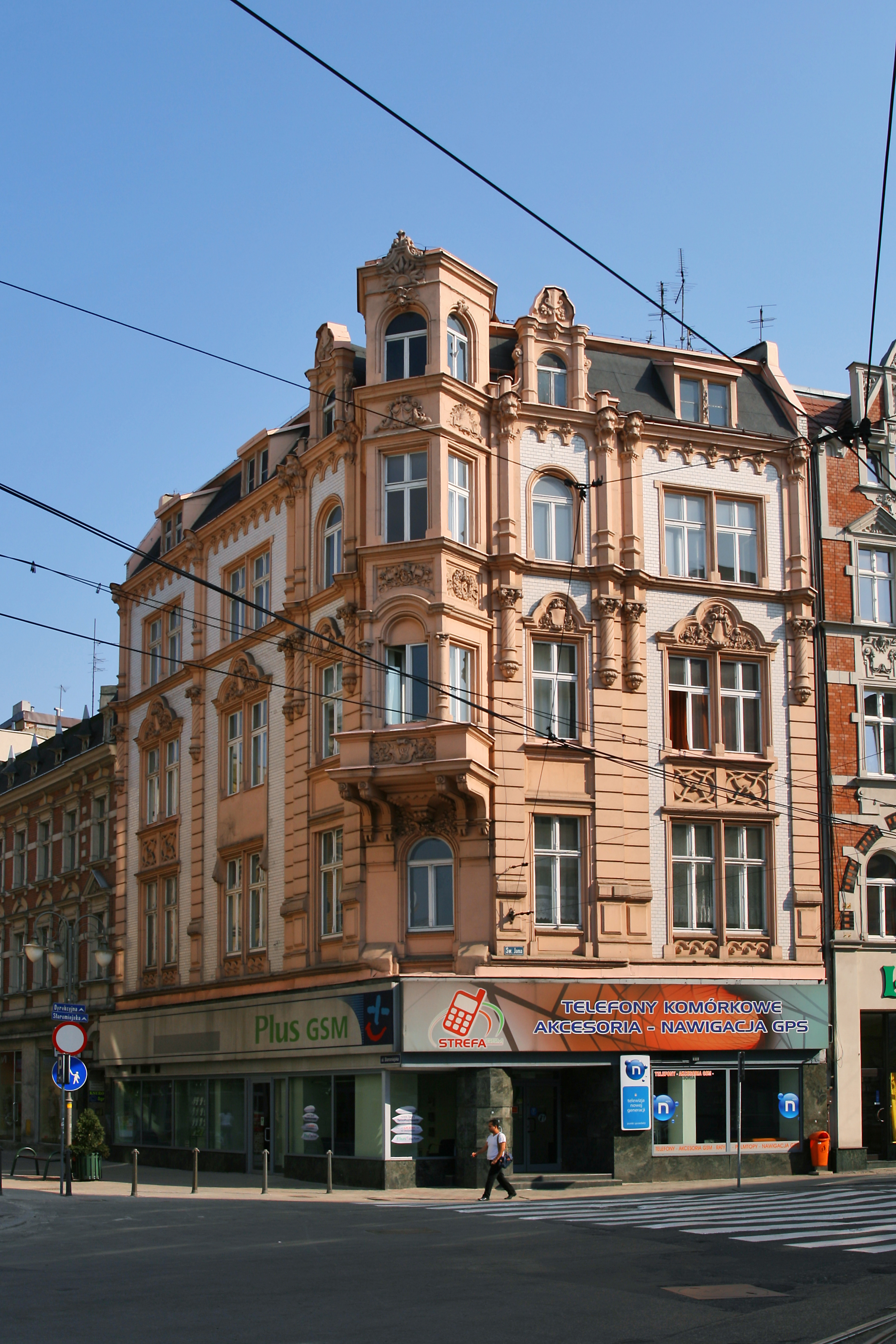 Tenement house on the Staromiejska Street 1 in Katowice (Poland).